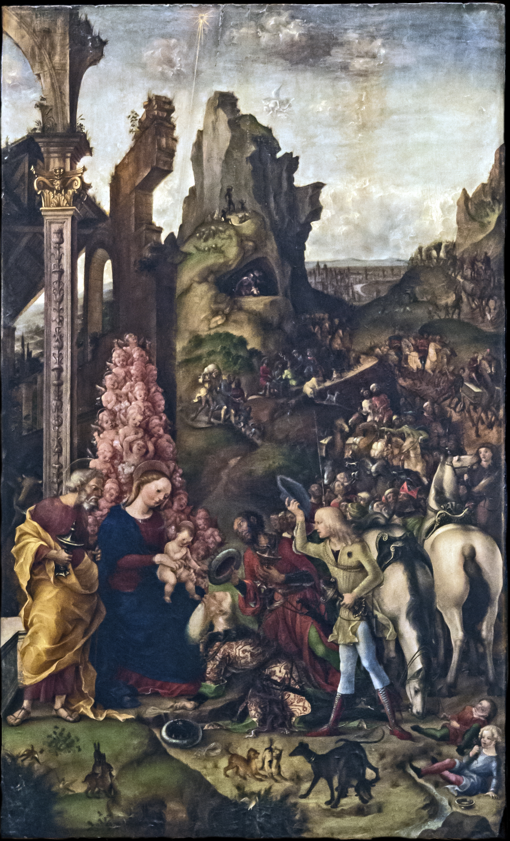 Cathedrale Santa Maria Matricolare. Calcasoli chapel. Adoration of the Magi by Liberale da Verona